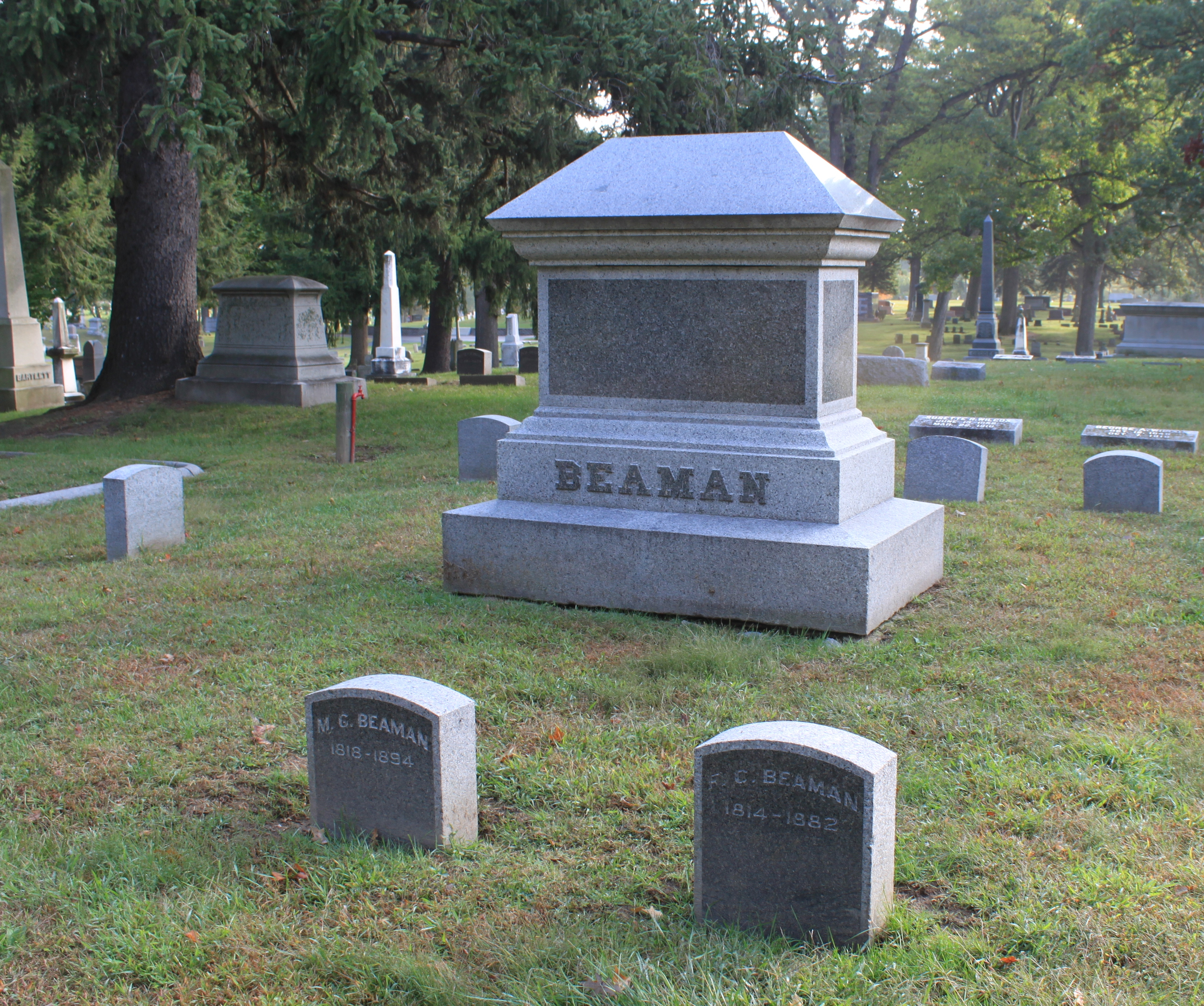 Fernando C. Beaman grave, Oakwood Cemetery, Adrian, Michigan. Beaman was a US Congressman from Michigan.